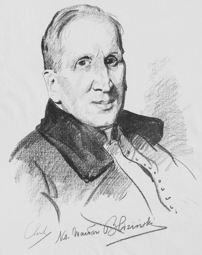 Wacław Bliziński's portrait by S. Lentz.